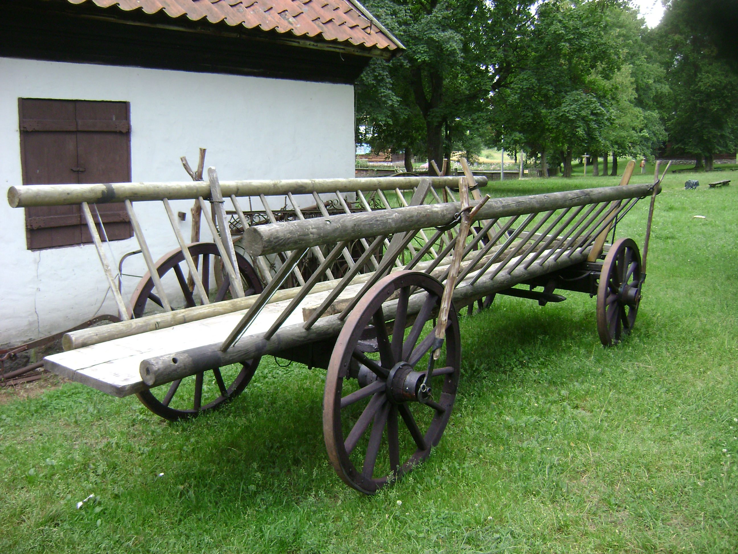 Poland. Olsztynek. Open air museum. (Skansen). Horse-drawn wagon.